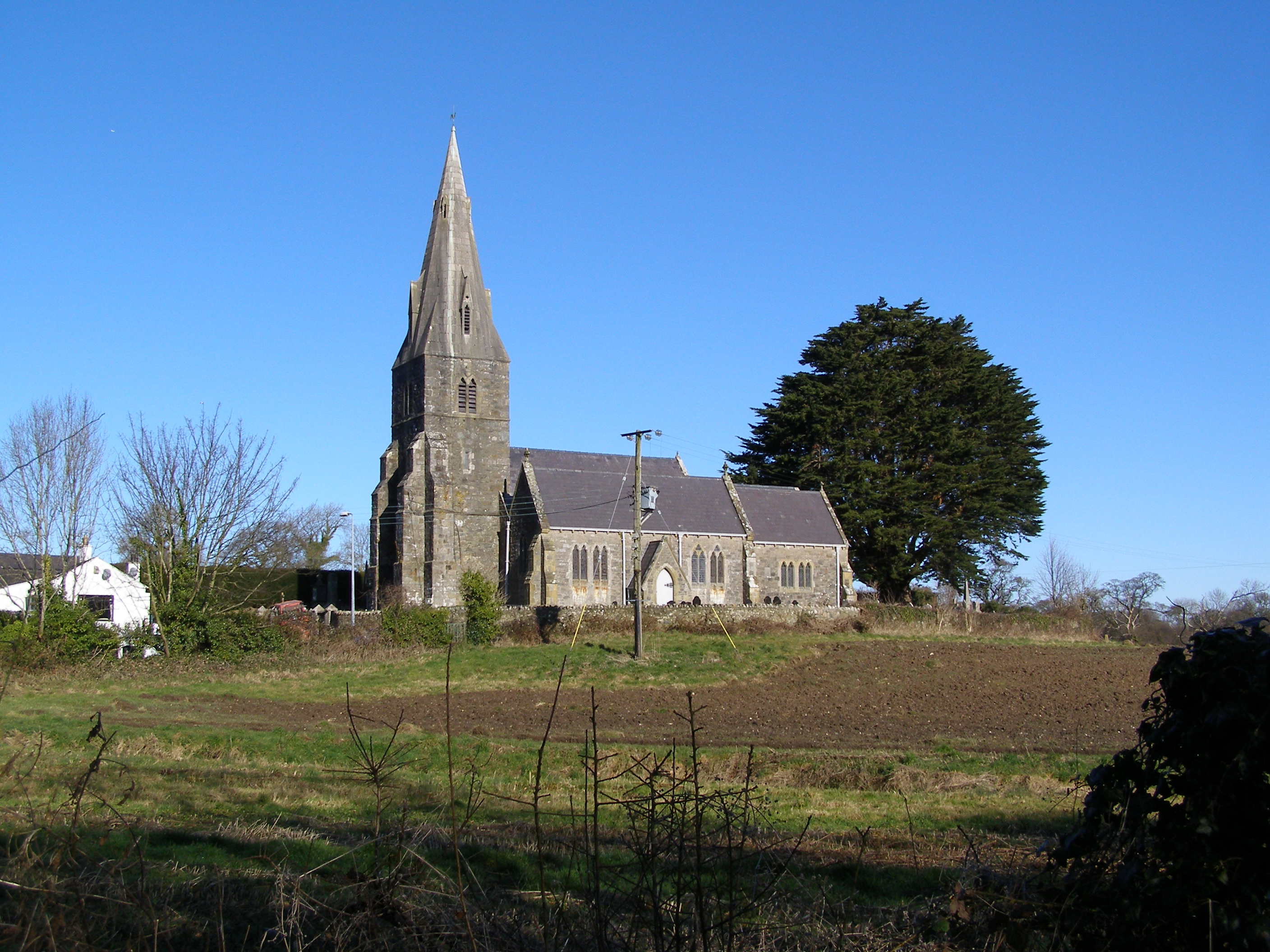 Llanfaes Church